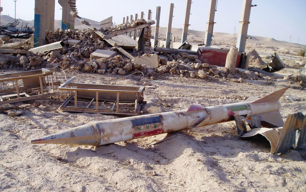 Just a little missile, about 8 or 9 feet long, that we found on one of our lovely walks through the desert near the dam. Don't worry too much about it, it appears to have been there for a long time and it is empty.Iraqi Missile